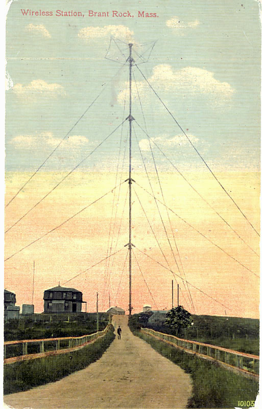 penny postcard of Reginald Fessenden's Brant Rock, Massachusetts radio tower. In 1906 Fessenden used this radio station to make the first two-way transatlantic radio transmission, communicating with an identical station in Machrihanish, Scotland.